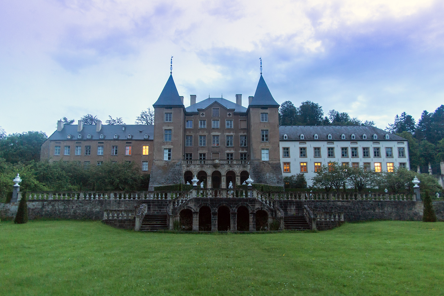 New Ansembourg Castle by Luxembourg photographer Vio Dudau